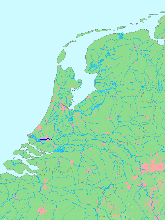 Location of a waterway (river/canal) in the Netherlends